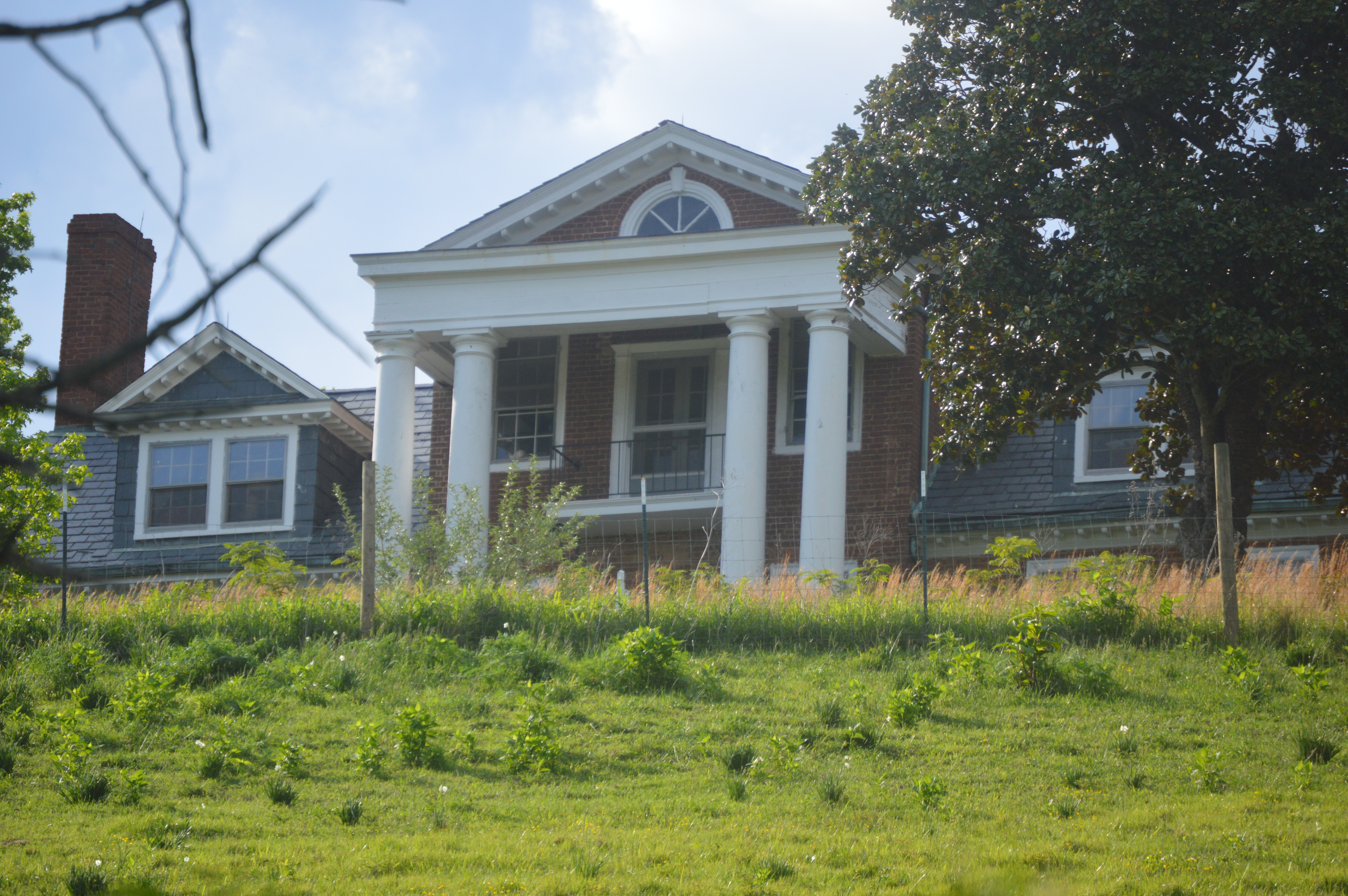 Front of Bon Aire, located on Cabell Road west of Warminster in Nelson County, Virginia, United States. Built in 1812, it is listed on the National Register of Historic Places.